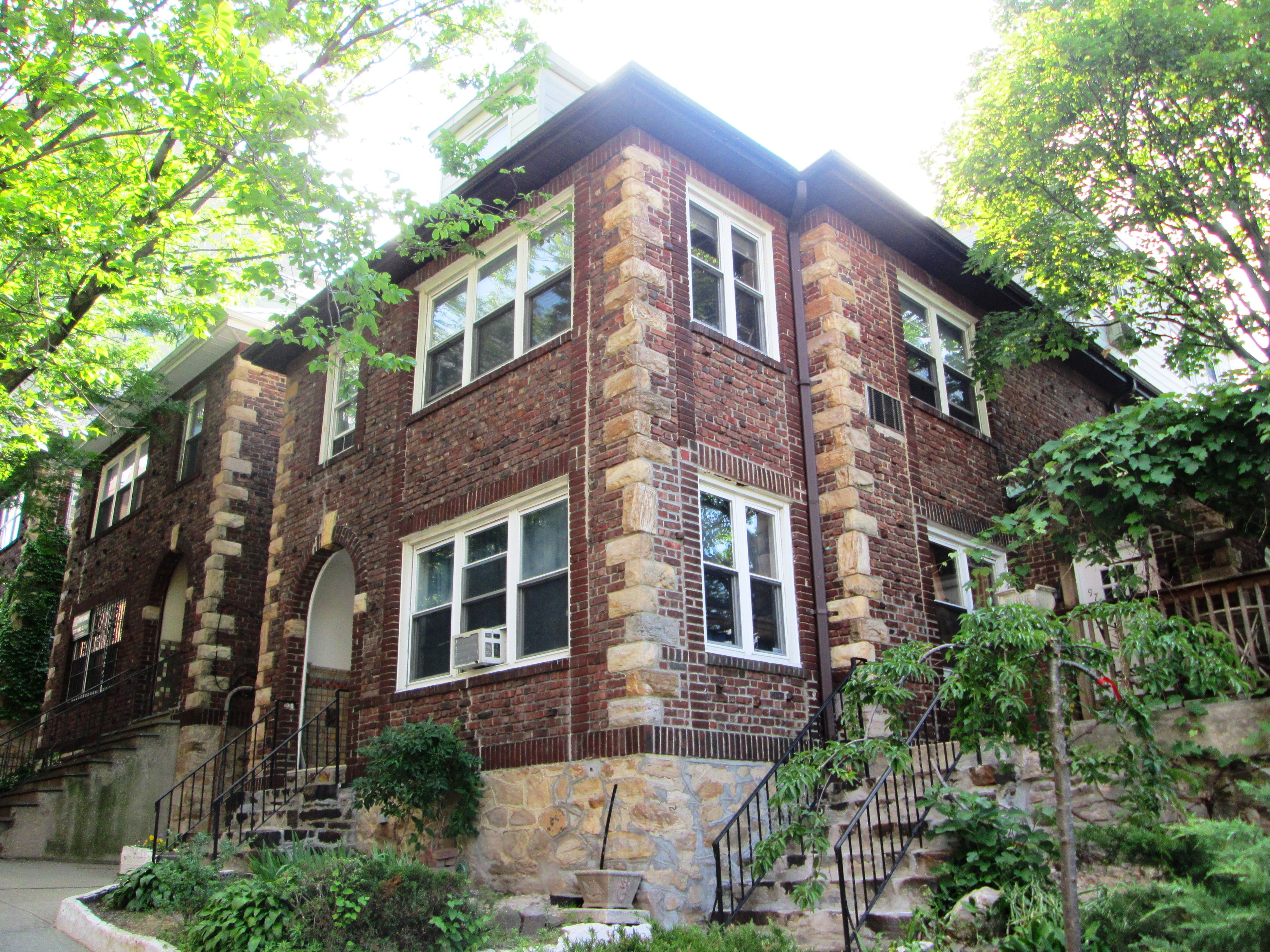 91, 93 & 95-97 Park Terrace West at West 218th Street in the Inwood neighborhood of Manhattan, New York City were built in 1926 as two-family houses with 2-car garages, and were designed by A. H. Zacharius in the Arts and Crafts style. (Source: [1]) In this image, #95-97 is in the foreground, and #93 is in the background.